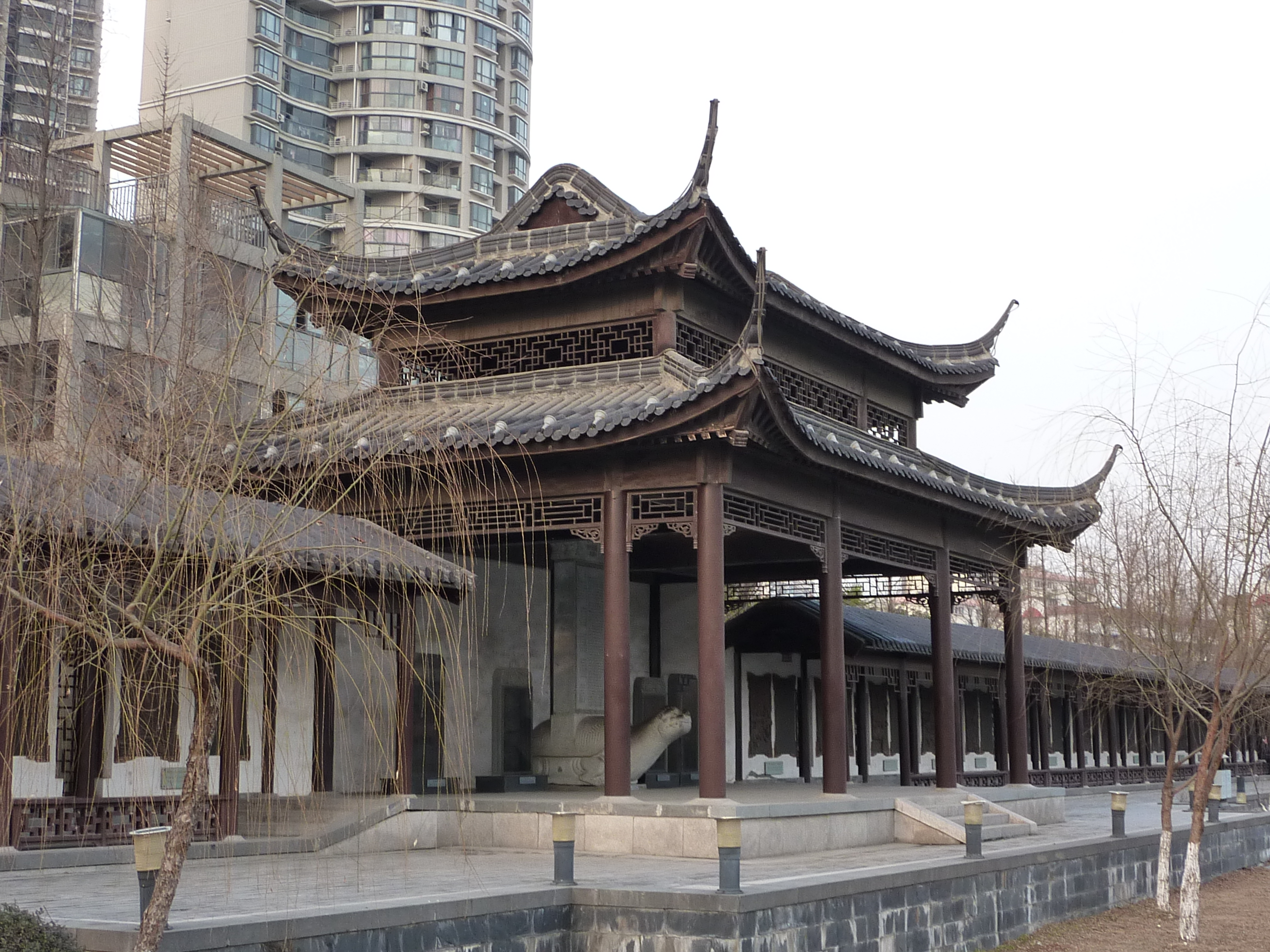 A pavilion with five steles (all modern replicas) associated with Zheng He's voyages and various events along it. The steles, left to right, are: (1) Stele from Tianfei Ling, Changle (near Fuzhou), Fujian; (2) The trilingual stele from Galle, Ceylon; (3) The tortoise-borne stele from Tianfei Gong, Nanjing; (4) Stele from Guli (Calicut); (5) Stele from Liujia Harbor in Taicang, Suzhou, Jiangsu